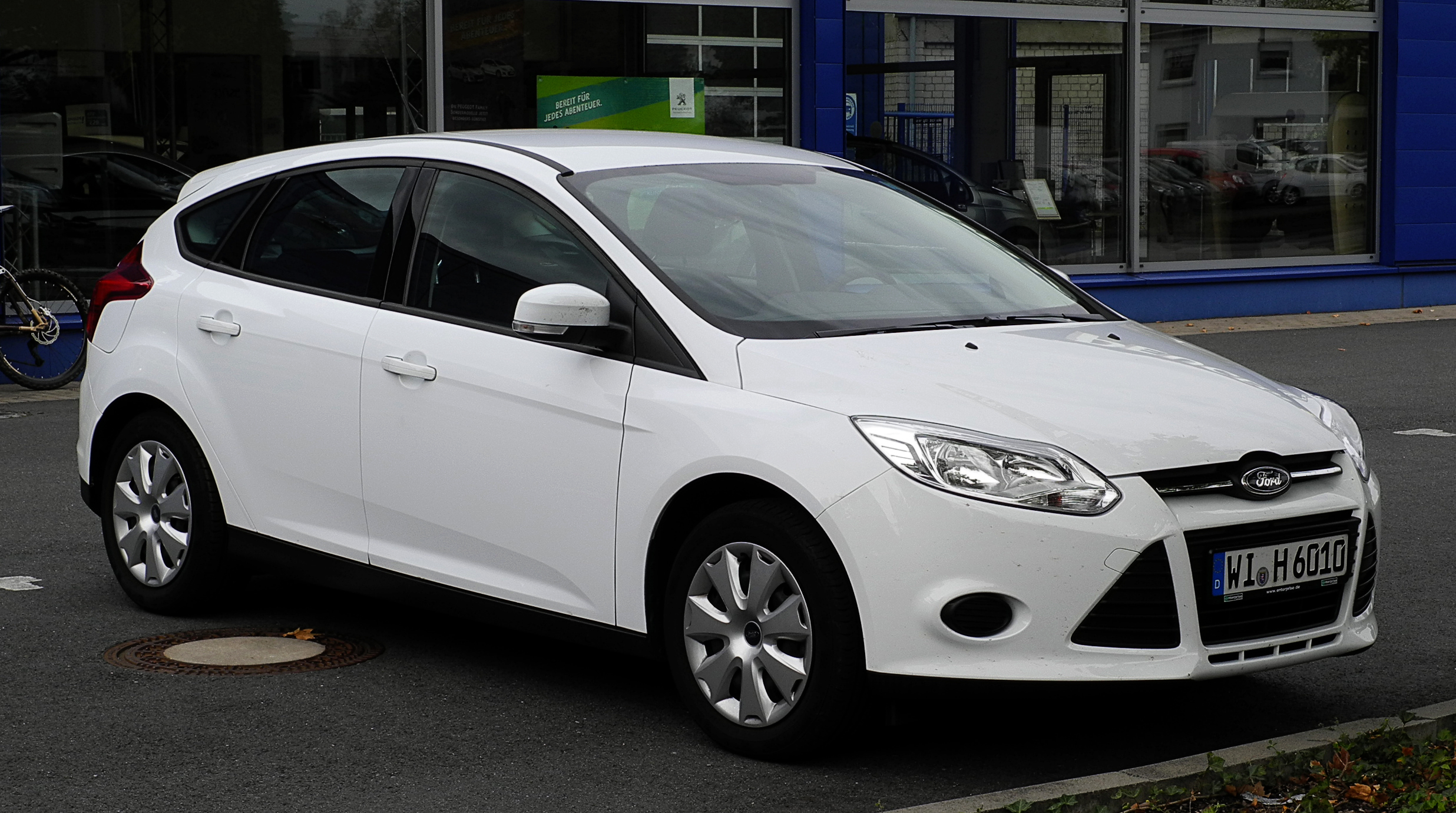 Ford Focus Trend (III)